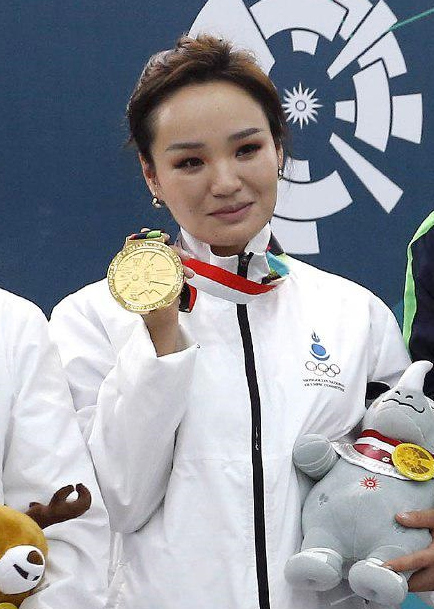 Shooting at the 2018 Asian Games – Women's 50 metre rifle three positions